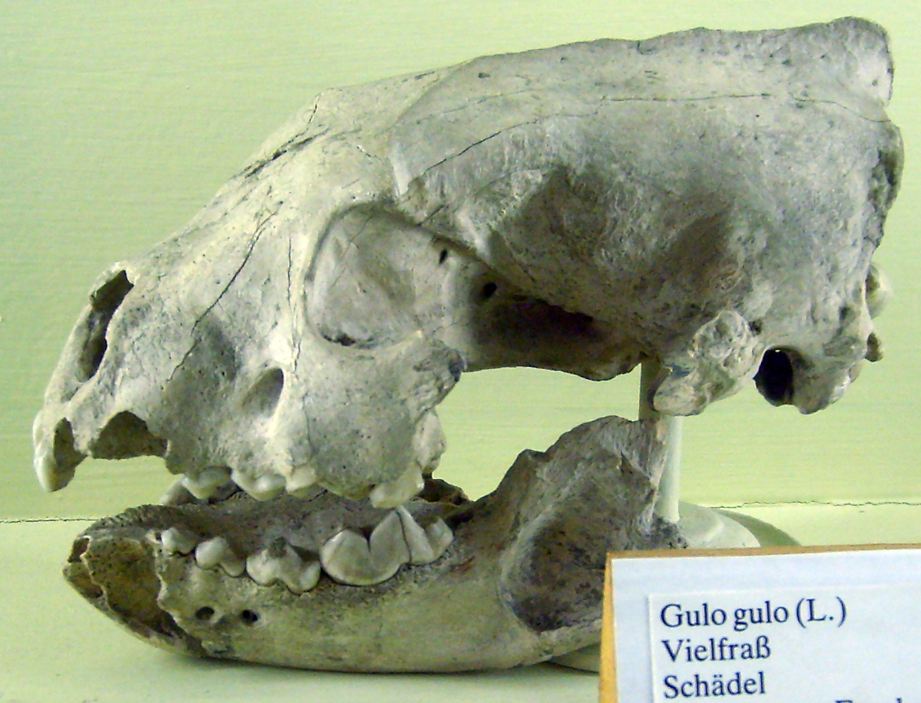 Wolverine skull from the Pleistocene of Germany at the Museum für Naturkunde, Berlin.